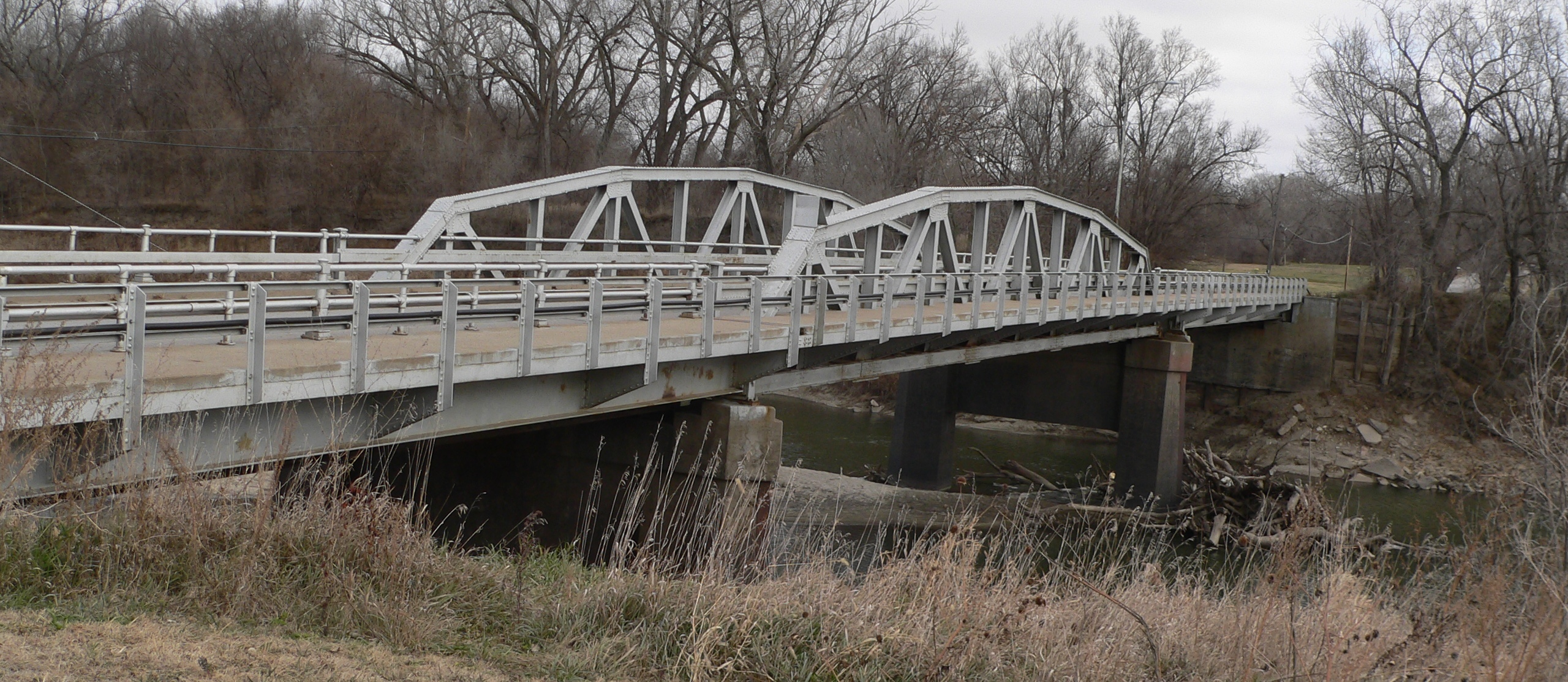 Bridge in Ashland, Nebraska, carrying Silver St. across Salt Creek; seen from the southwest (upstream). The bridge was constructed in 1936, and is on the National Register of Historic Places. It is noteworthy for its Warren pony trusses with polygonal top chords, a design not commonly used in Nebraska.